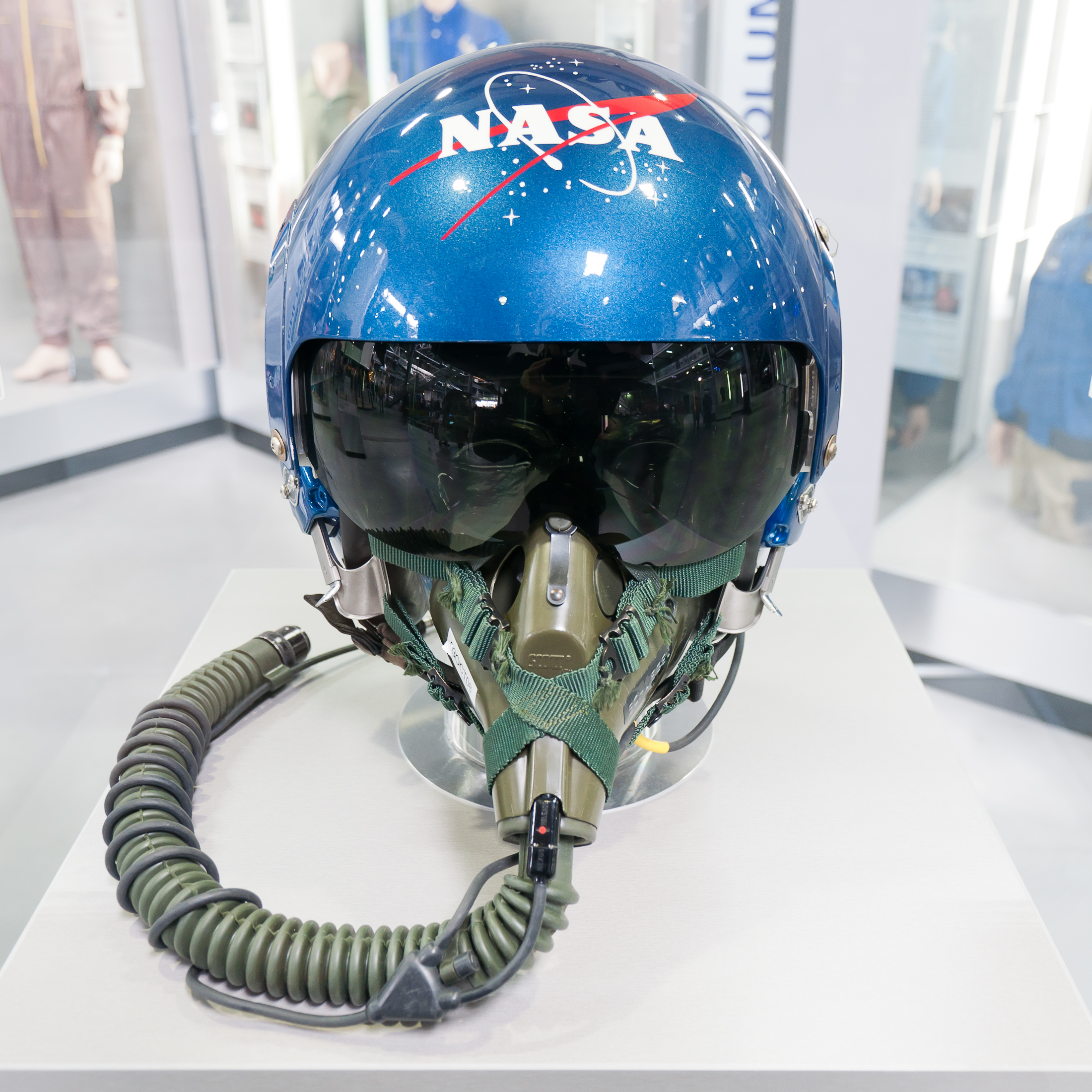 Helmet for pilots of a NASA Northrop T-38 Talon, on exhibition at Technik Museum Speyer, Germany